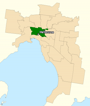 This image incorporates data that is: © Commonwealth of Australia (Australian Electoral Commission) 2009 Division of Melbourne 2010